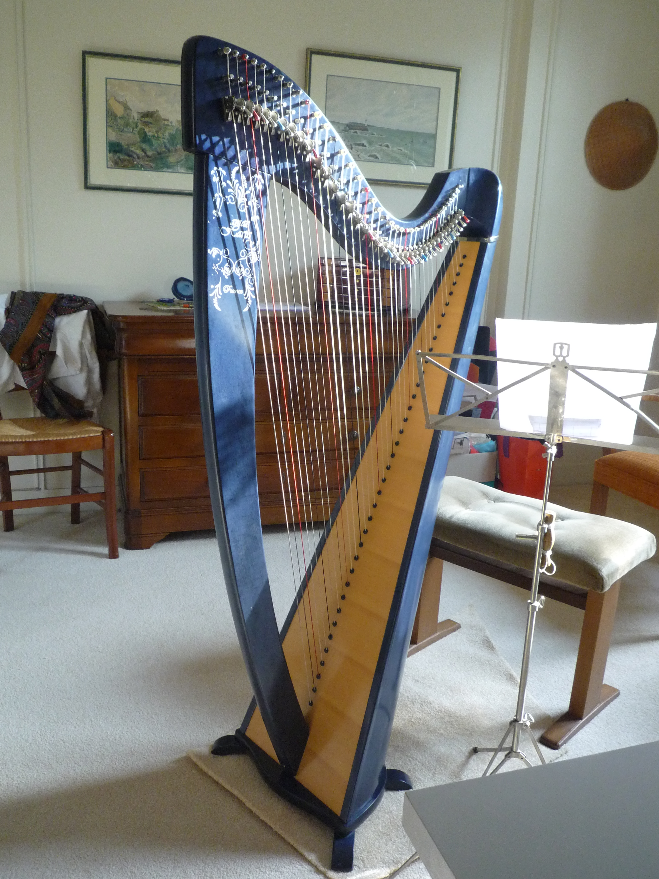 modern celtic harp